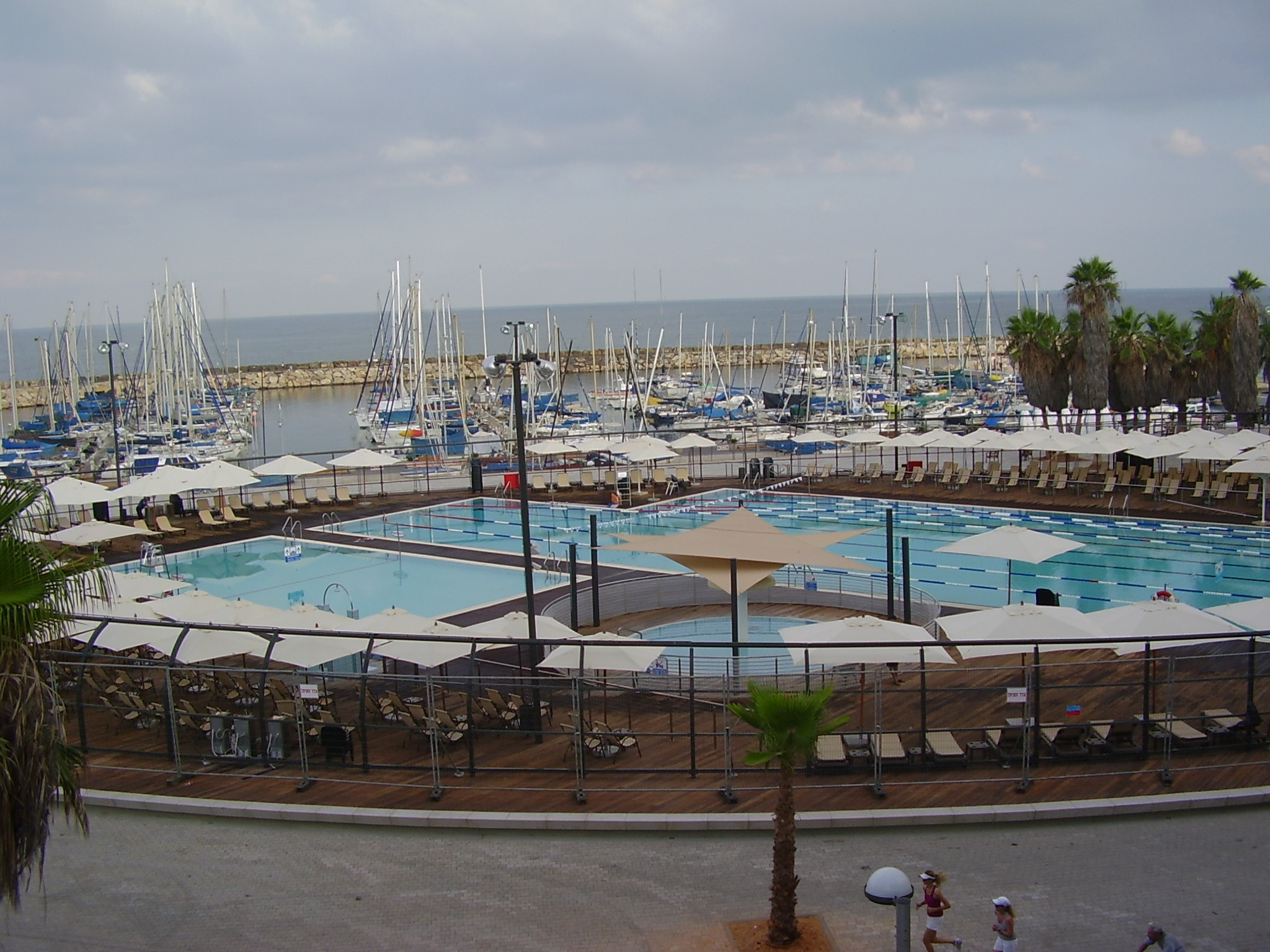 Gordon swimming pool and Tel Aviv Marina